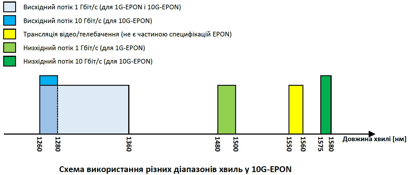 10G-EPON Wavelength Plan